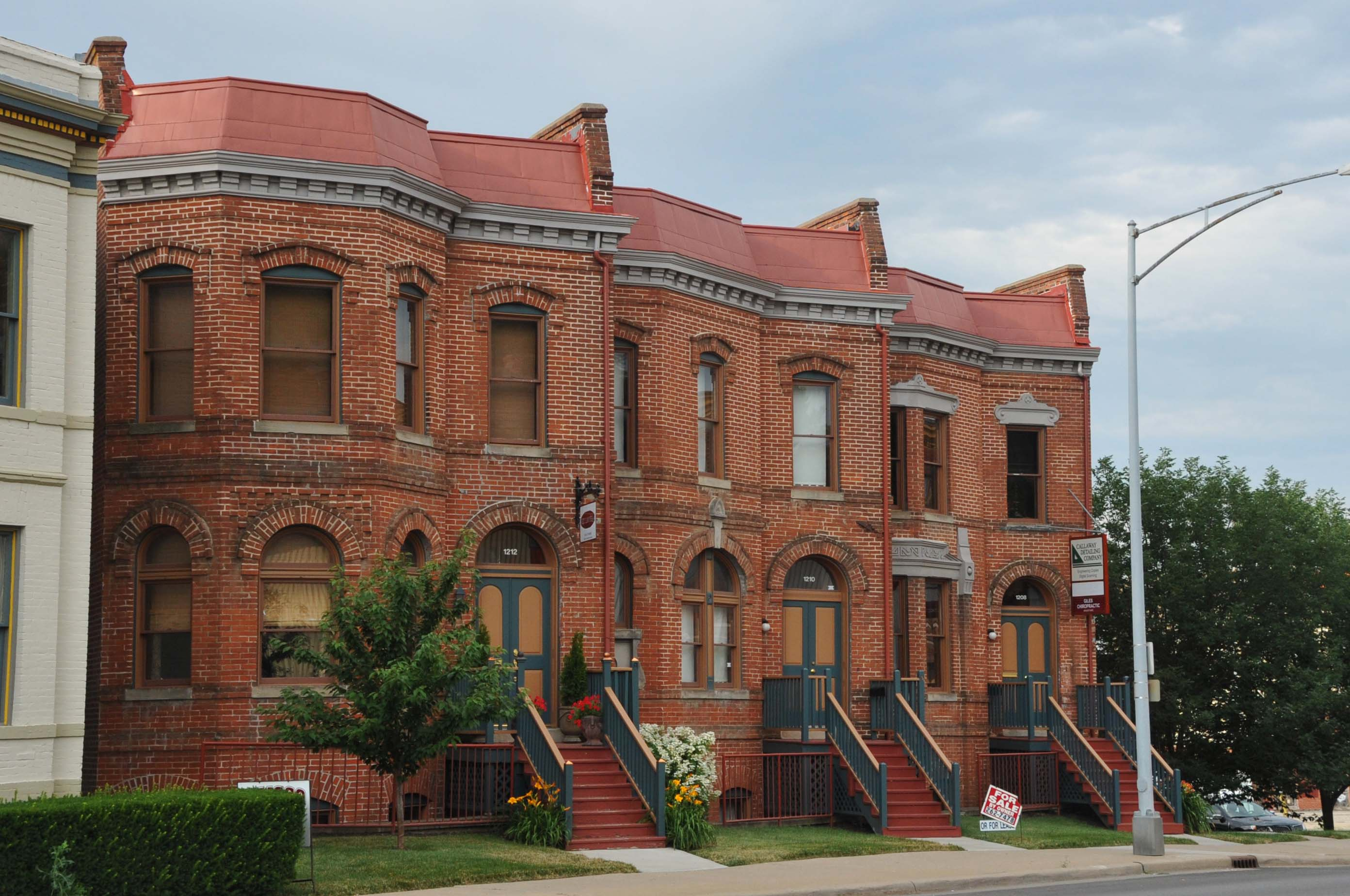 BUILT IN 1888-1889; ACCORDING TO THE N.P.S. NOMINATION FORM THEY SHOULD BE CALLED ROW HOUSES AND NOT FLATS; QUEEN ANNE STYLE.